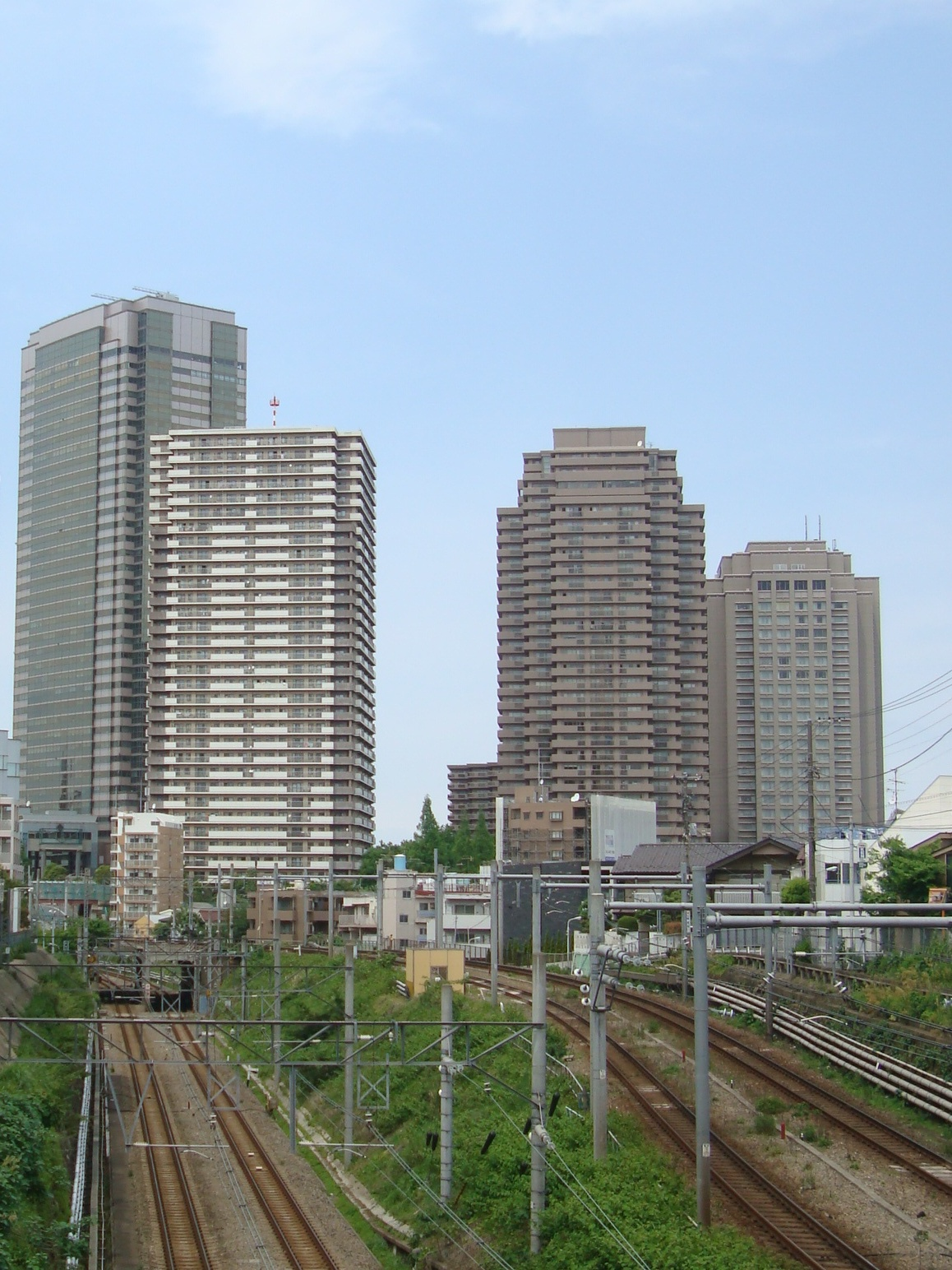 Yebisu Garden Place and the Yamanote-sen railroad (Yebisu - Meguro)